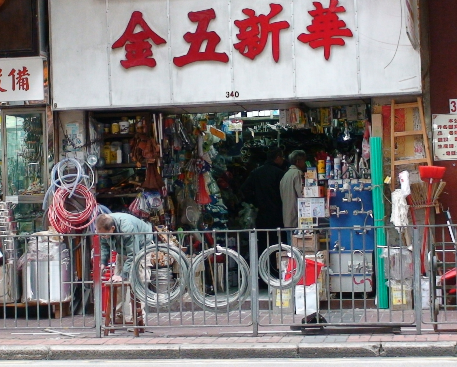 A local version of Hardware store (五金鋪) in Yau Ma Tei , Hong Kong